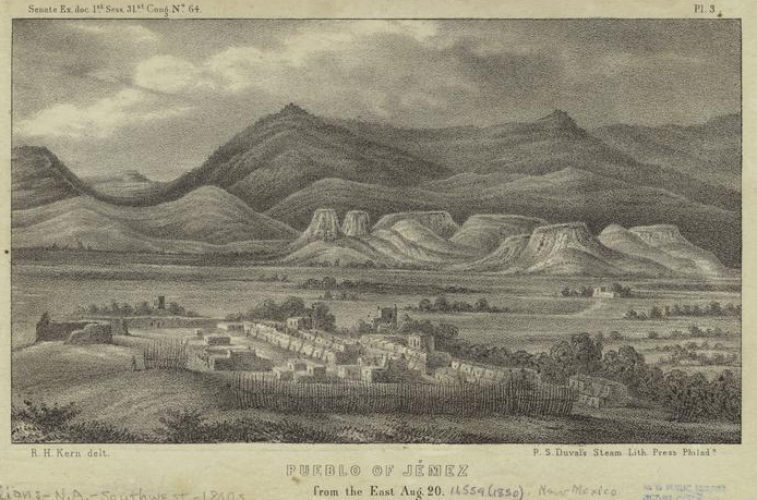 Pueblo of Jémez, from the east, Aug. 20, 1850.